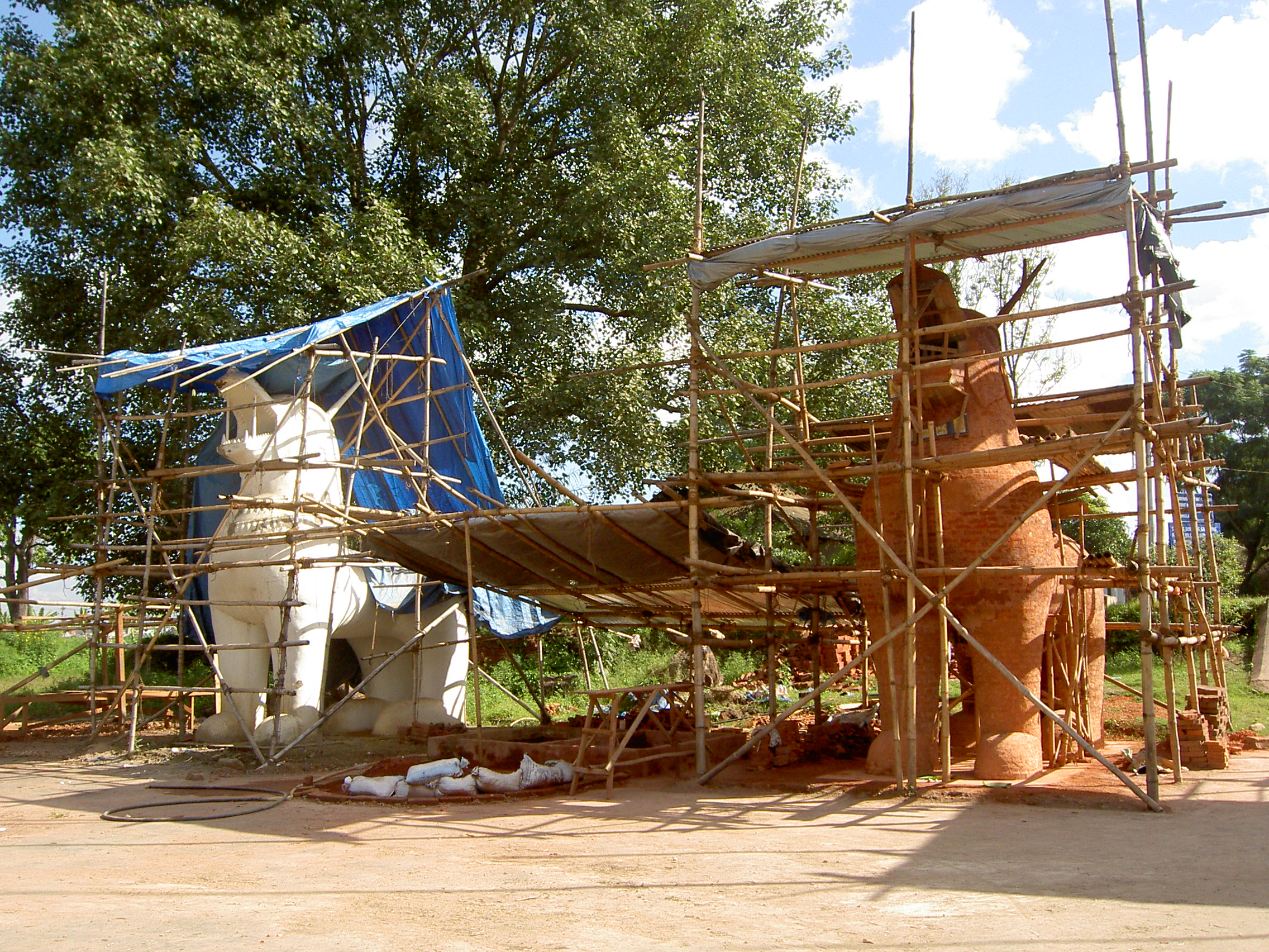 The Kangla Dragons are being restaurated